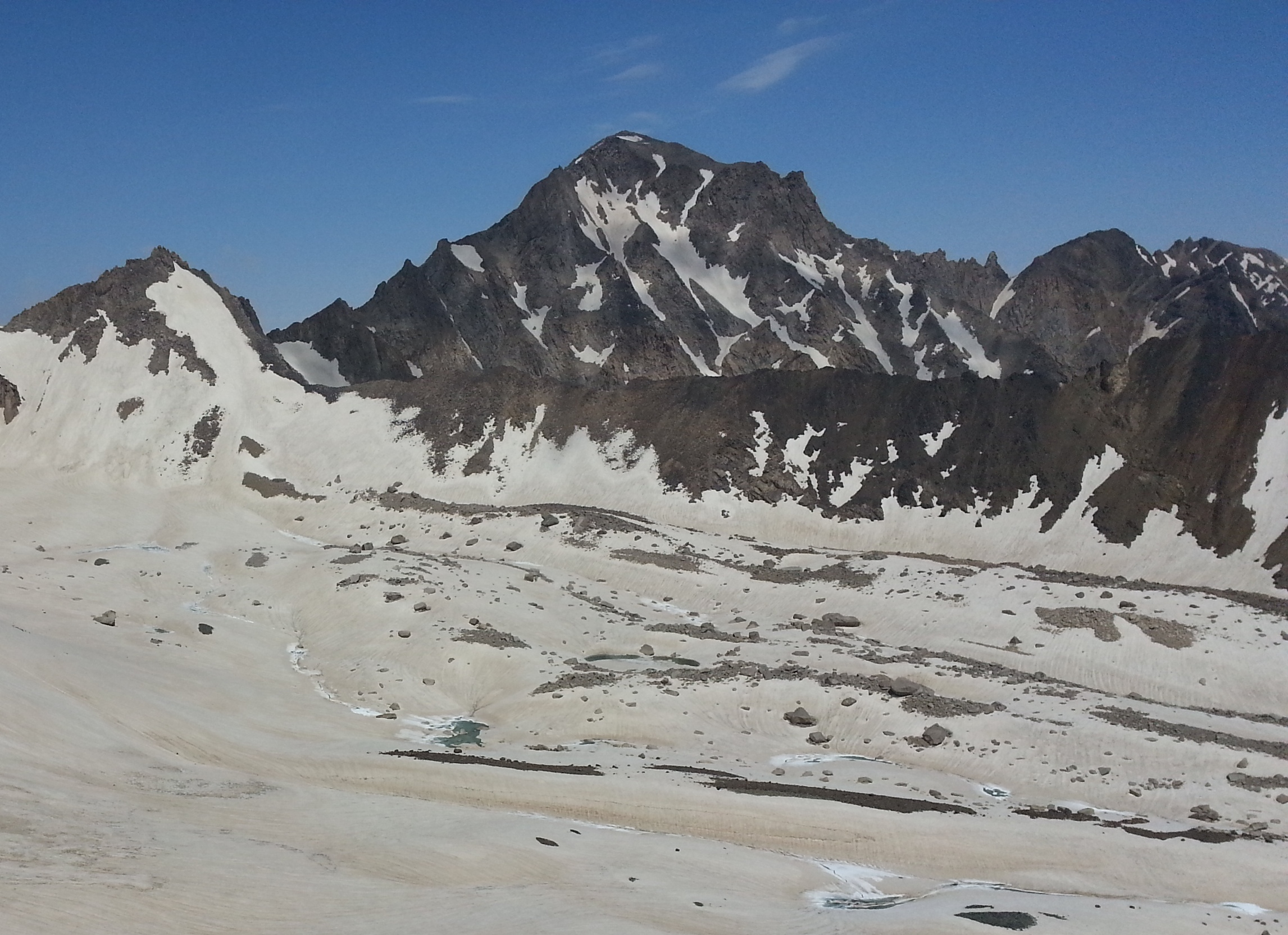 located in Takht-e Suleyman Massif in Alborz Range with 4659 meters height.